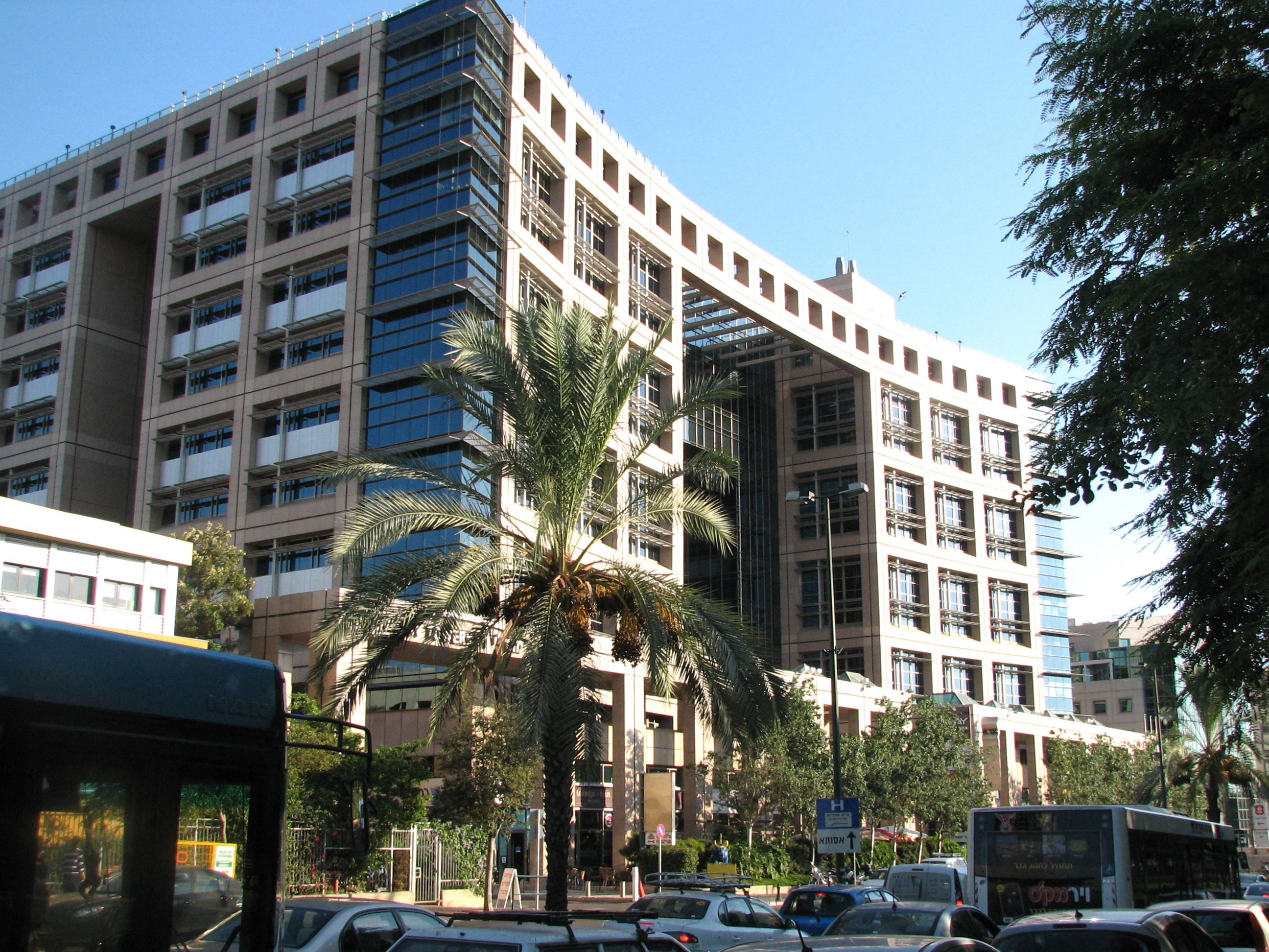 HaBarzel Street, Ramat Hahayal, Tel Aviv